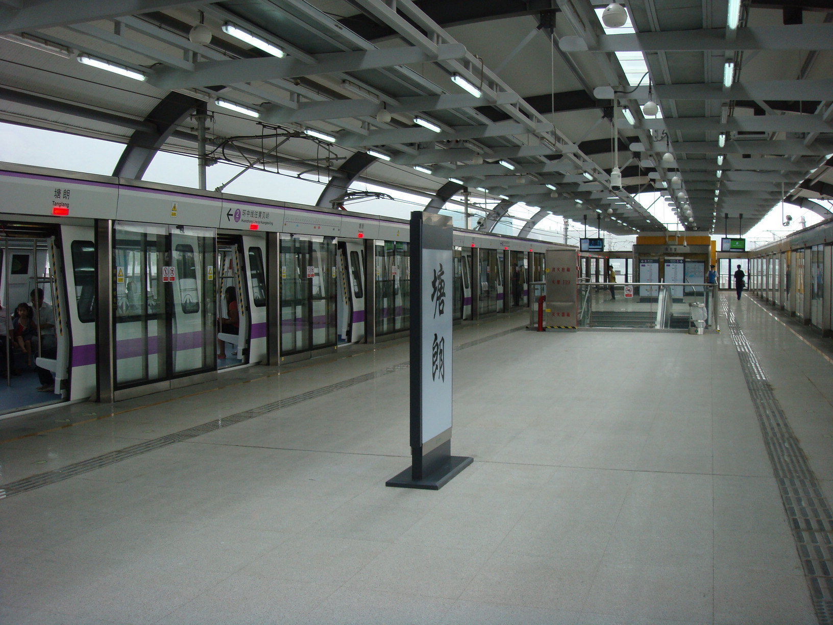 Tanglang Station of Huanzhong Line, Shenzhen Metro.